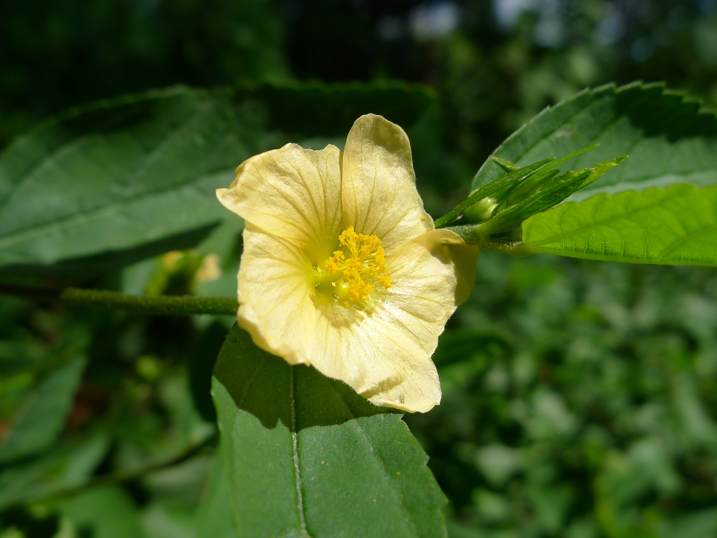 Sida acuta is common on roadsides and tracks. Poon Saan, Christmas Island, Australia, April 2011.